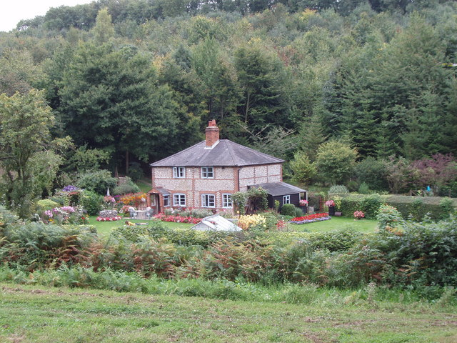 House near Handy Cross with garden among trees The hedges in front of the house are along a bridleway, and it is quite a surprise after walking through fields and woods to glimpse a flower garden through a gap in the hedge.